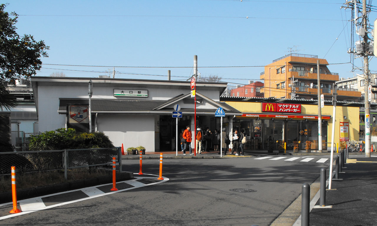 Ooguchi Railway Station in Kanagawa,Japan(east side)